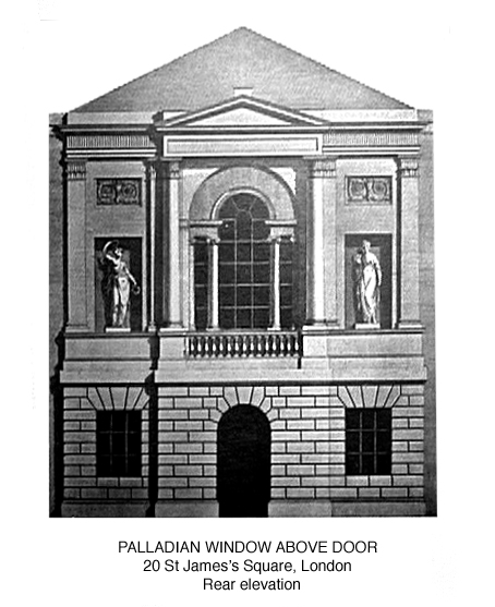 from classic drawing in library of Royal Institute of British Architects.